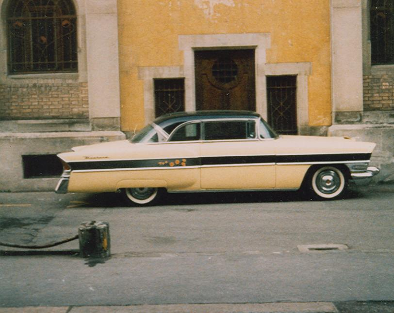 Packard Executive Hardtop Model 5677A (1956). Location is the Swiss customs duty-free warehouse in St. Gallen, Switzerland.